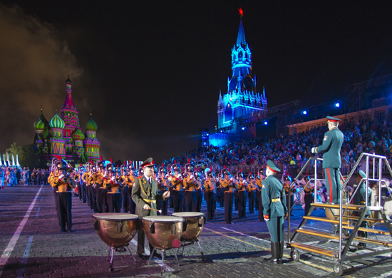 The 5th International military and musical festival "Spasskaya Tower" official opening